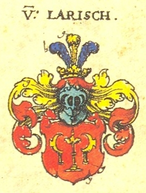 Coat of arms of the von Larisch family from the Siebmachers Wappenbuch.